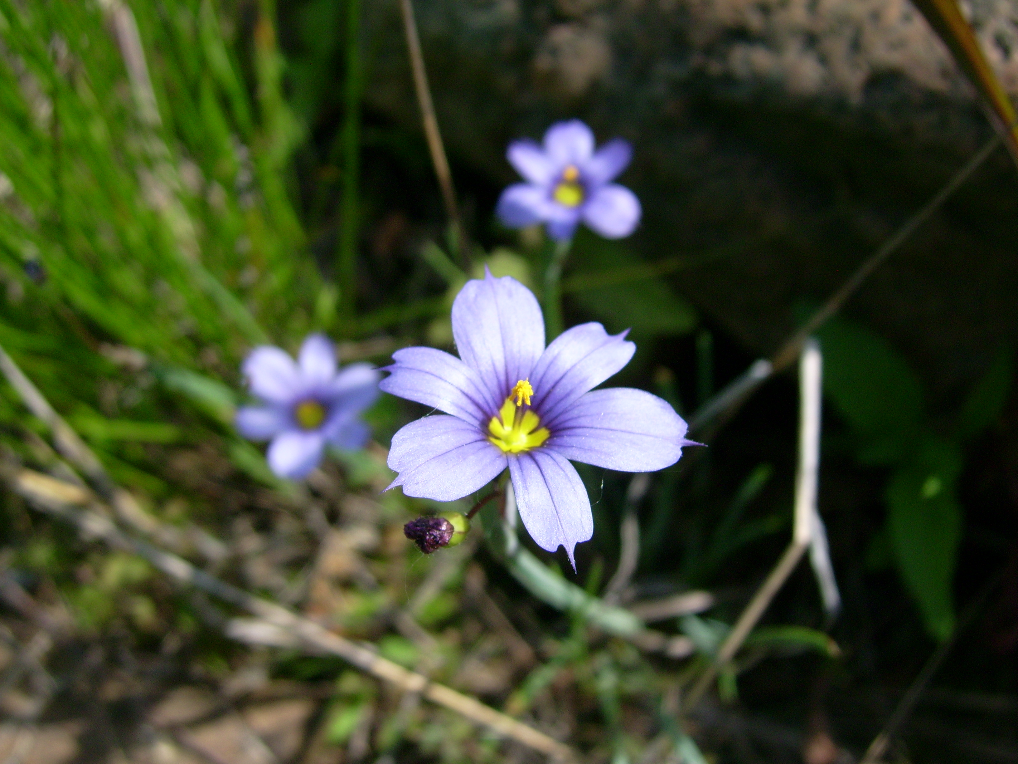 Narrow-leaf blue-eyed grass (Sisyrinchium angustifolium), Whitefish Island, Batchewana First Nation